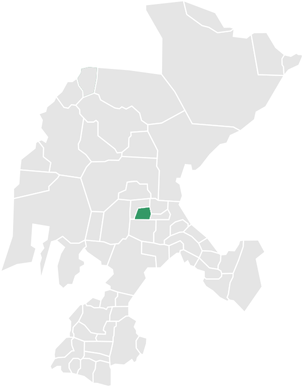 Map of the Municipality of Morelos in Zacatecas, México.